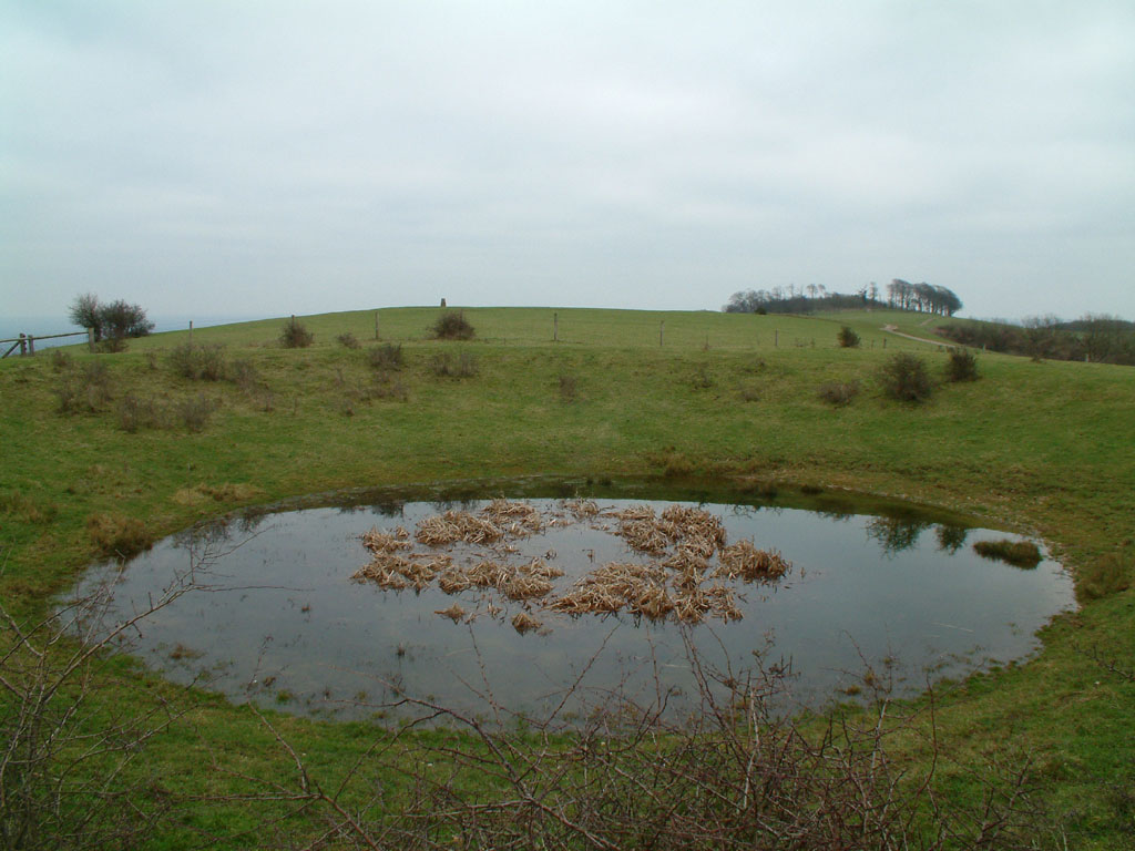 Dew pond at Chanctonbury Ring, with the Ring itself behind. Photograph by Stephen Dawson, 30 January 2005